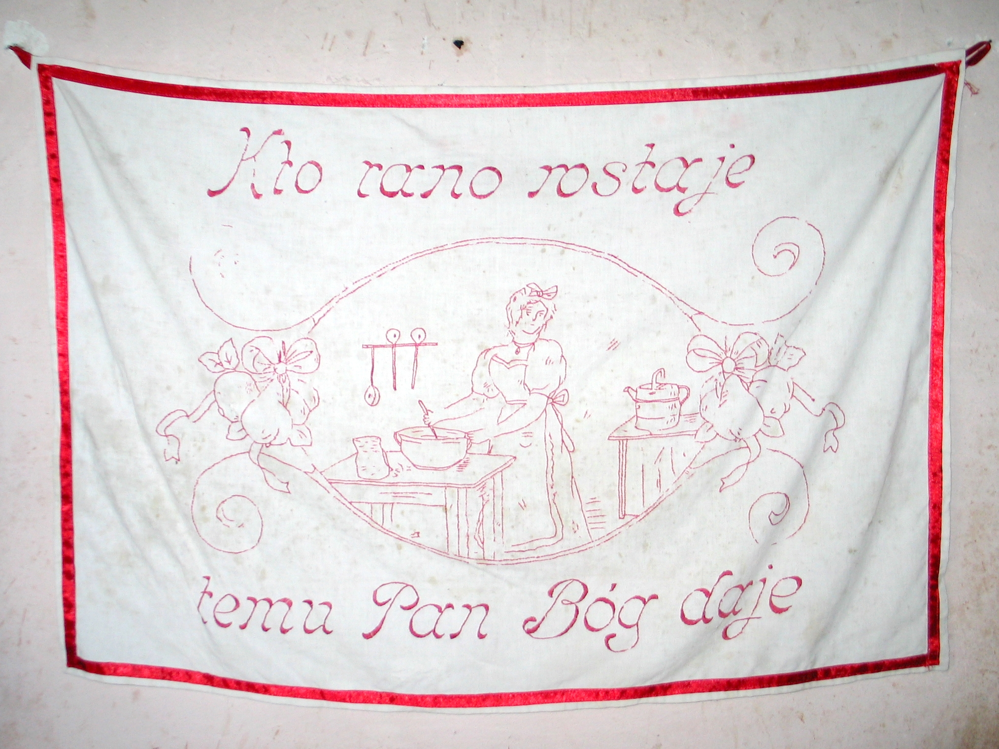 A Polish kitchen tapestry, called makatka. A proverb "Kto rano wstaje, temu Pan Bóg daje" means: "the early bird gets the worm".